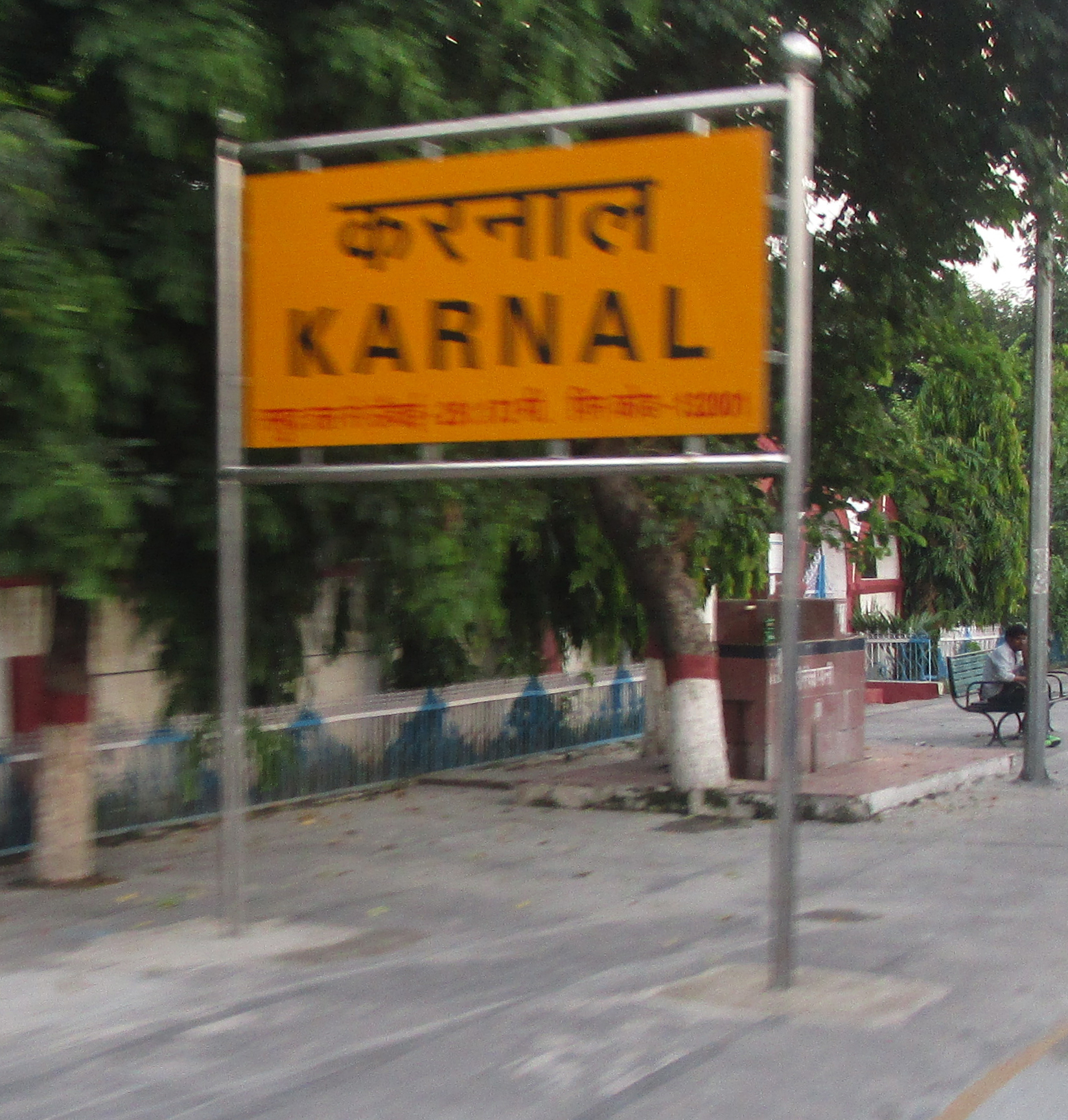 Karnal railway station